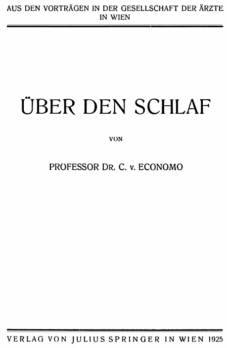 cover of classic von Economo monograph (C. von Economo, Über den Schlaf.)